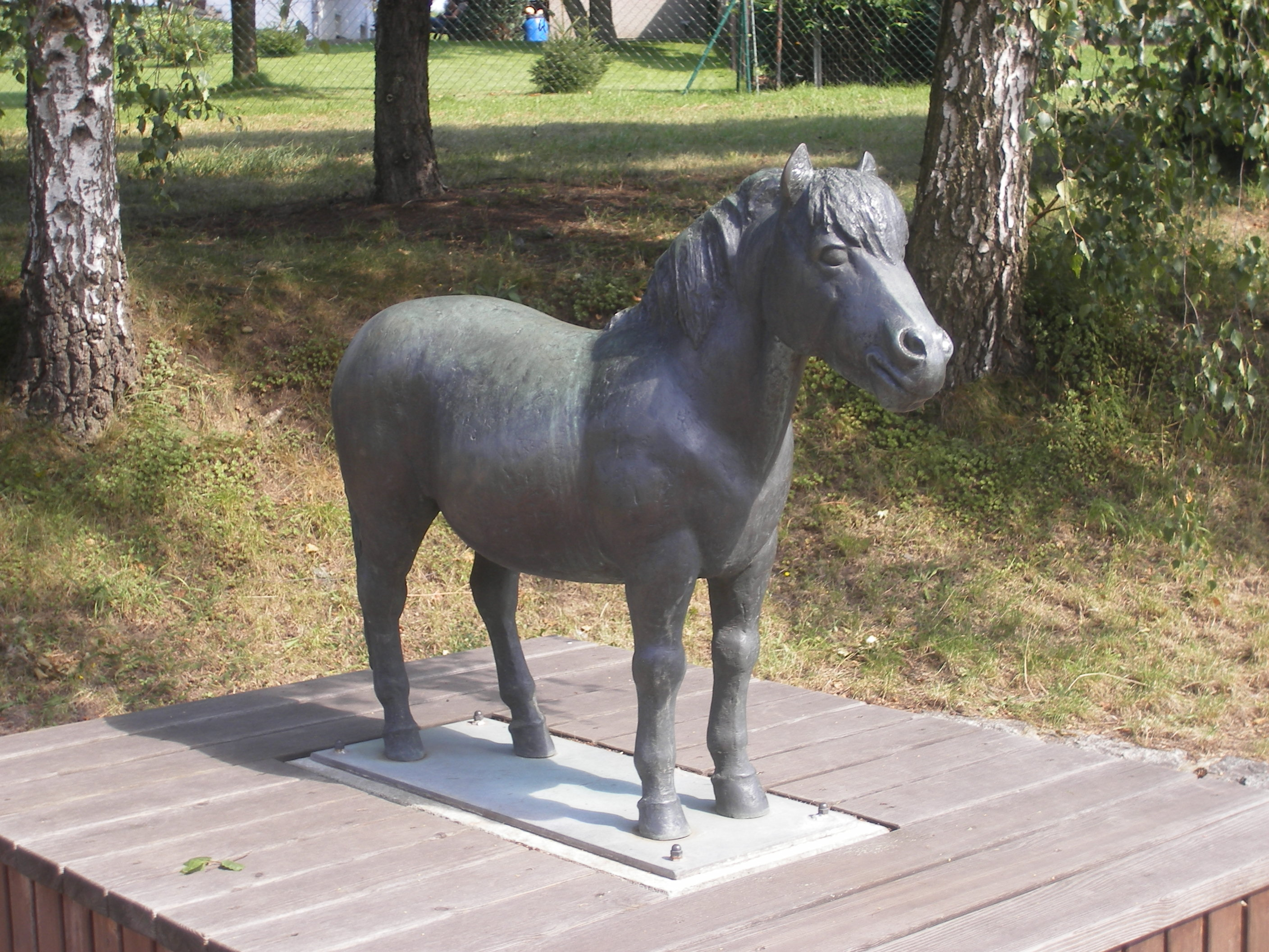 Horse sculpture in Zehma near Altenburg/Thuringia